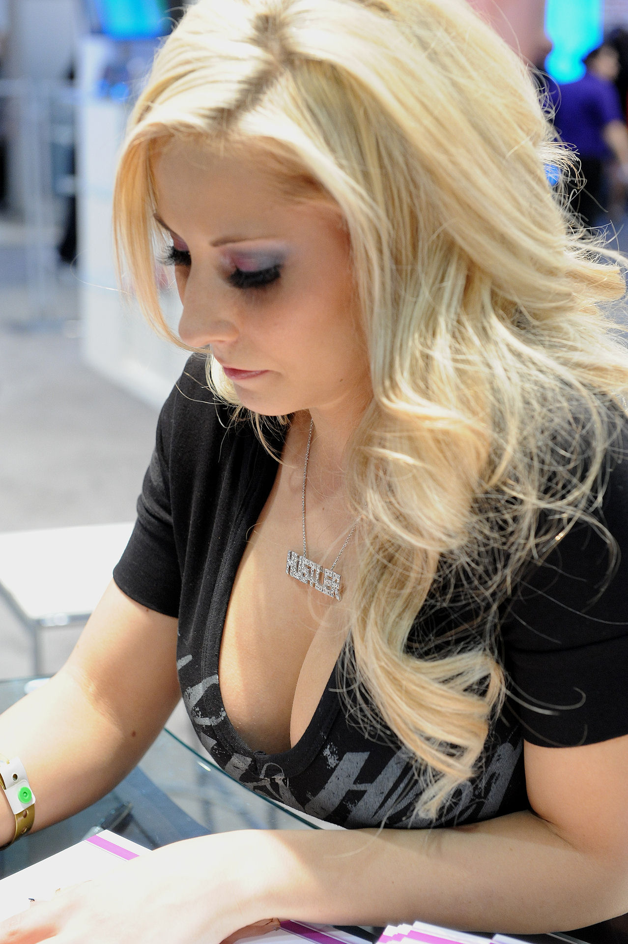 Madison Ivy at AVN Adult Entertainment Expo 2011